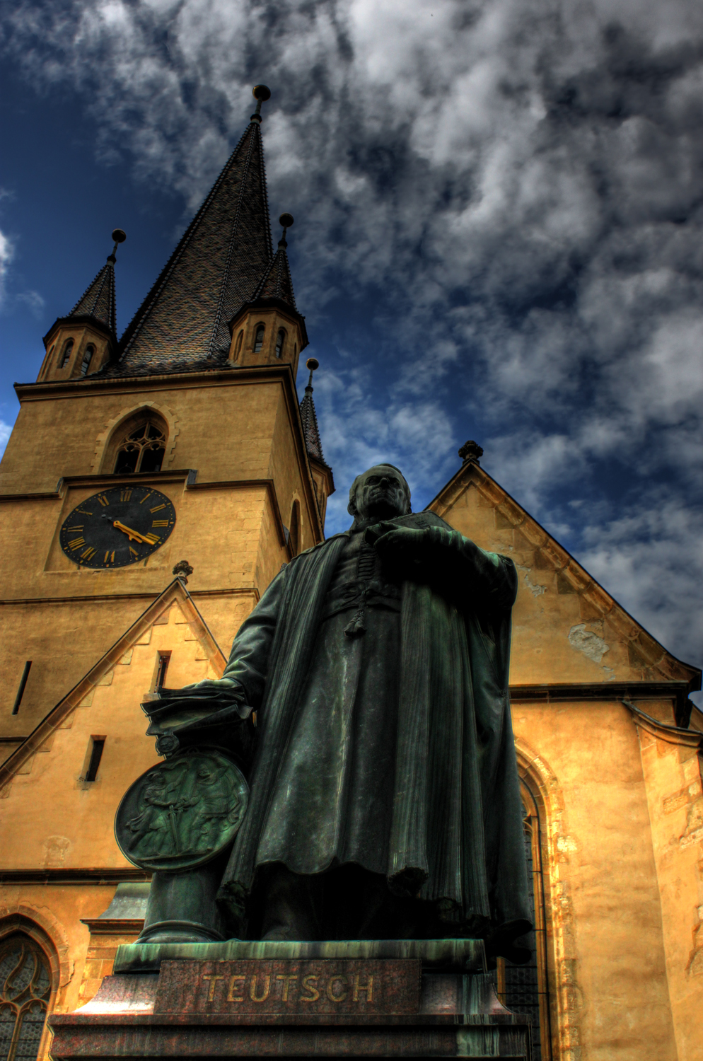 Foreground: statue of Georg Daniel Teutsch who was archbishop of … background: Sibiu Lutheran Cathedral, Sibiu, Romania.